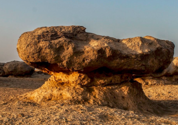 صخور متشكلة بأشكال هندسية